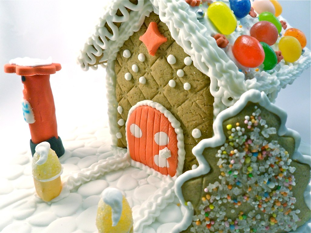 Gingerbread house by Andrew Kelsall.